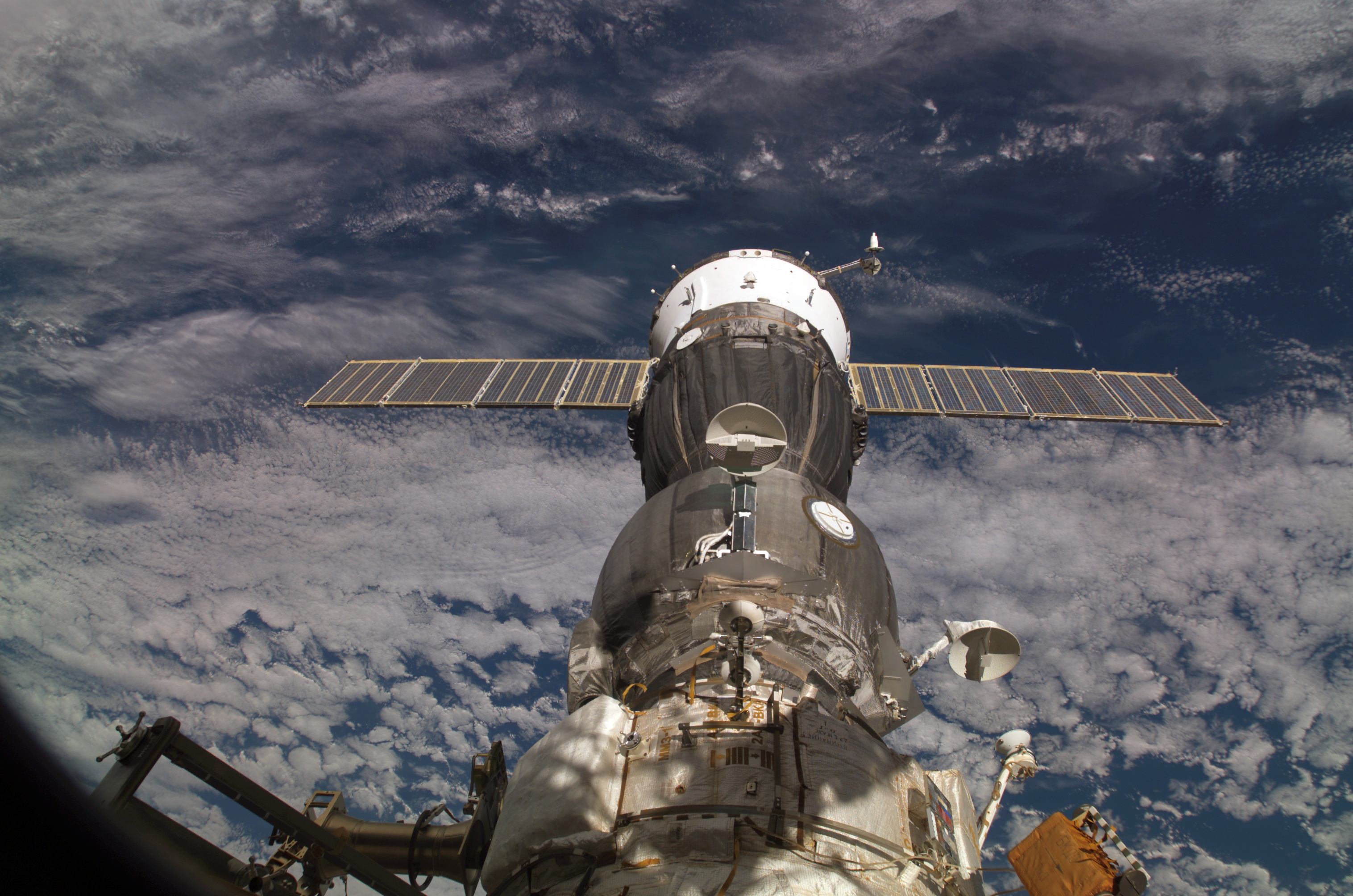 A blanket of clouds provides the backdrop for this scene of the Soyuz TMA-6 spacecraft, docked to the Pirs Docking Compartment on the International Space Station (ISS). The scene was photographed by an Expedition 10 crewmember.